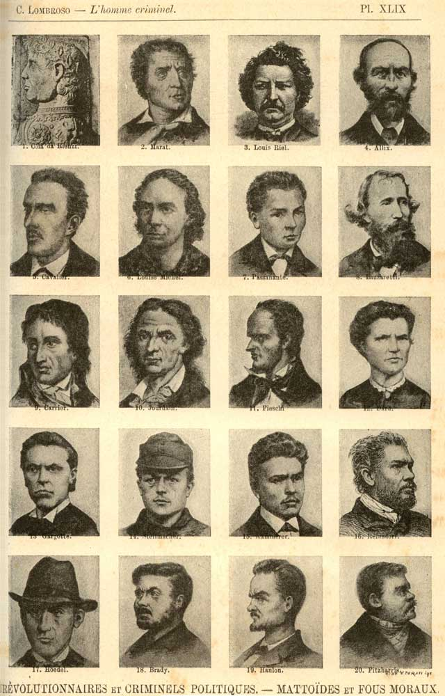 Picture of criminals, according to Lombroso. Dates back to ca. 1880. Author: Cesar Lombroso (died in 1909).